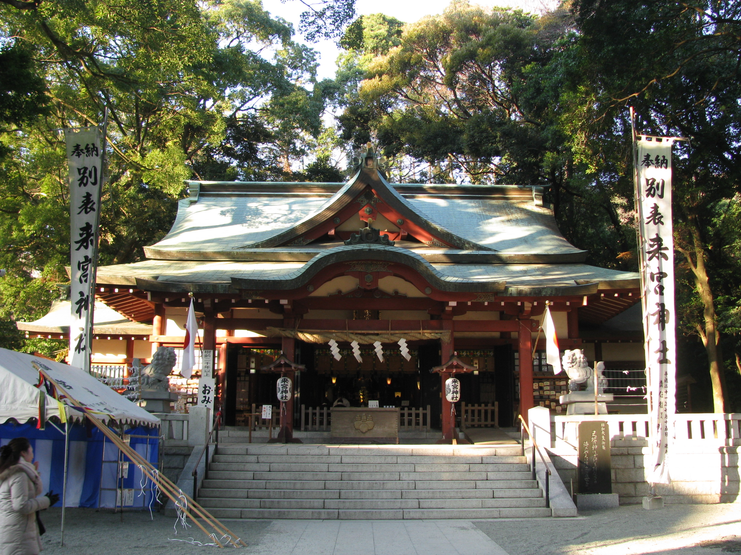 The Kinomiya-jinja is a shinto shrine. This place is Atami, Shizuoka, Japan.